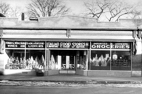 Sclafani Store